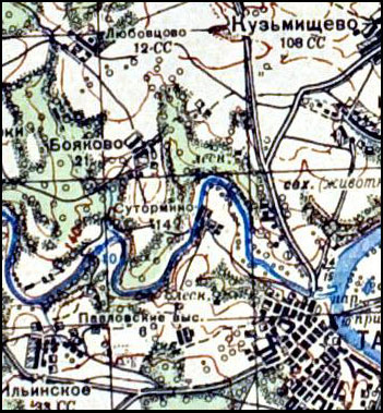 Участок карты 1941 года. Эта карта использовалась частями Советской армии во время Великой Отечественной войны. Около каждого населенного пункта цифрой отмечено количество домов в населенном пункте.